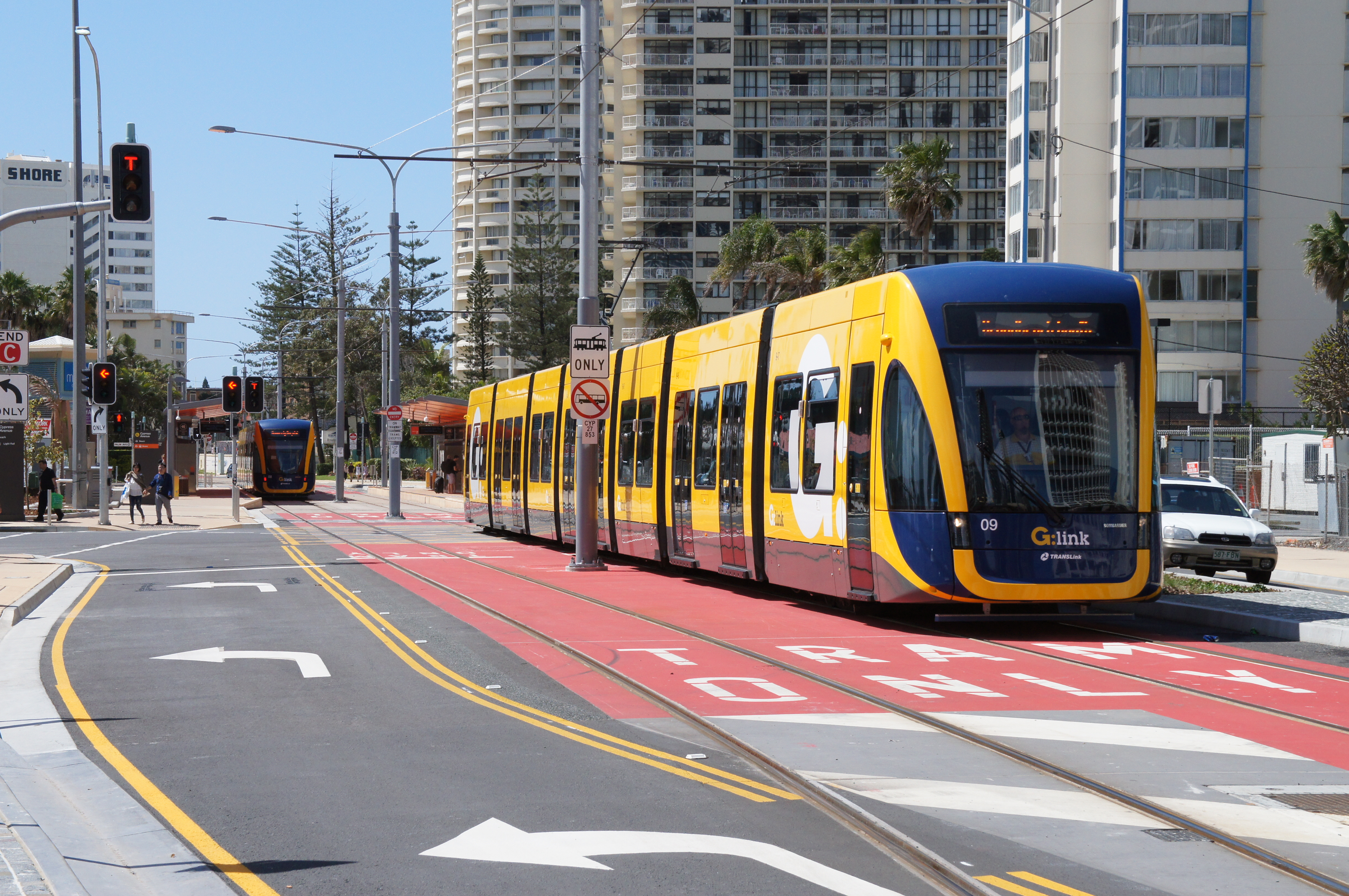 Tram leaving Cypress Avenue on the Gold Coast Light Rail.